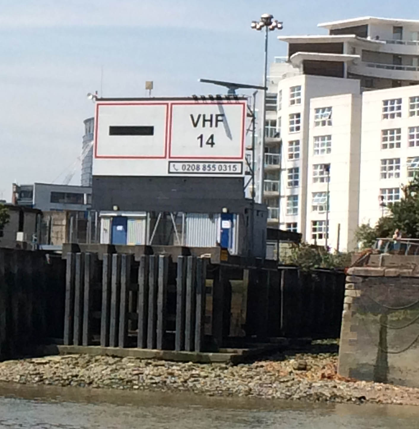 Sign telling shipping to contact London VTS on VHF channel 14 as they approach the Thames Barrier